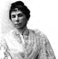 A photograph of Hannah Slade Currier, one of the founders of the Currier Museum of Art in Manchester, New Hampshire.